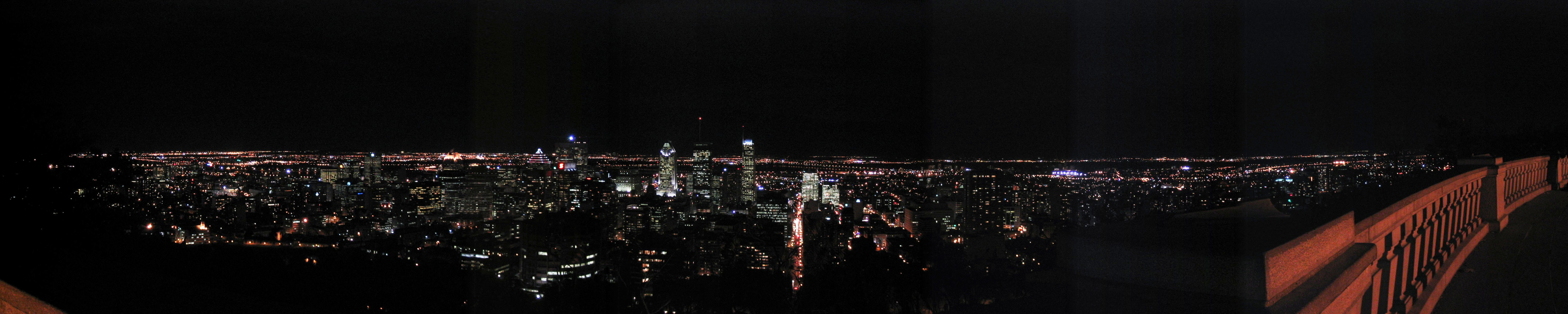 Montreal night panorama: From Mount Royal lookout at night.